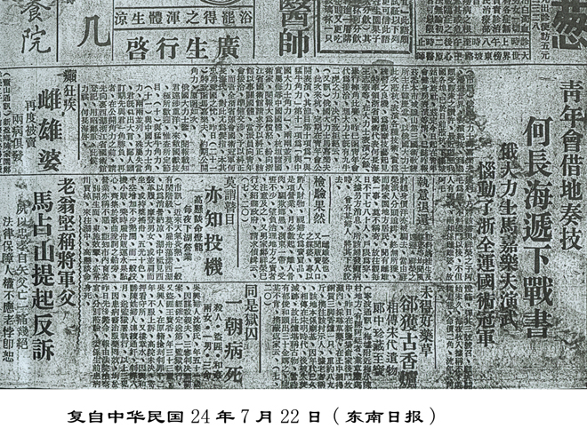 Changhai He to challenge a Russian Hercules